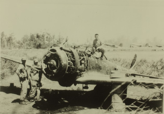 PictionID:6485503 - Catalog:01_00086161 - Title:Nakajima, Ki-43, Hayabusa 'Peregrine Falcon' Oscar 'Jim' Army Type 1 Fighter - Filename:01_00086161.TIF - Image from the Charles Daniels Photo Collection album "Seversky, Republic and P-47"----PLEASE TAG this image with any information you know about it, so that we can permanently store this data with the original image file in our Digital Asset Management System.----SOURCE INSTITUTION: San Diego Air and Space Museum Archive